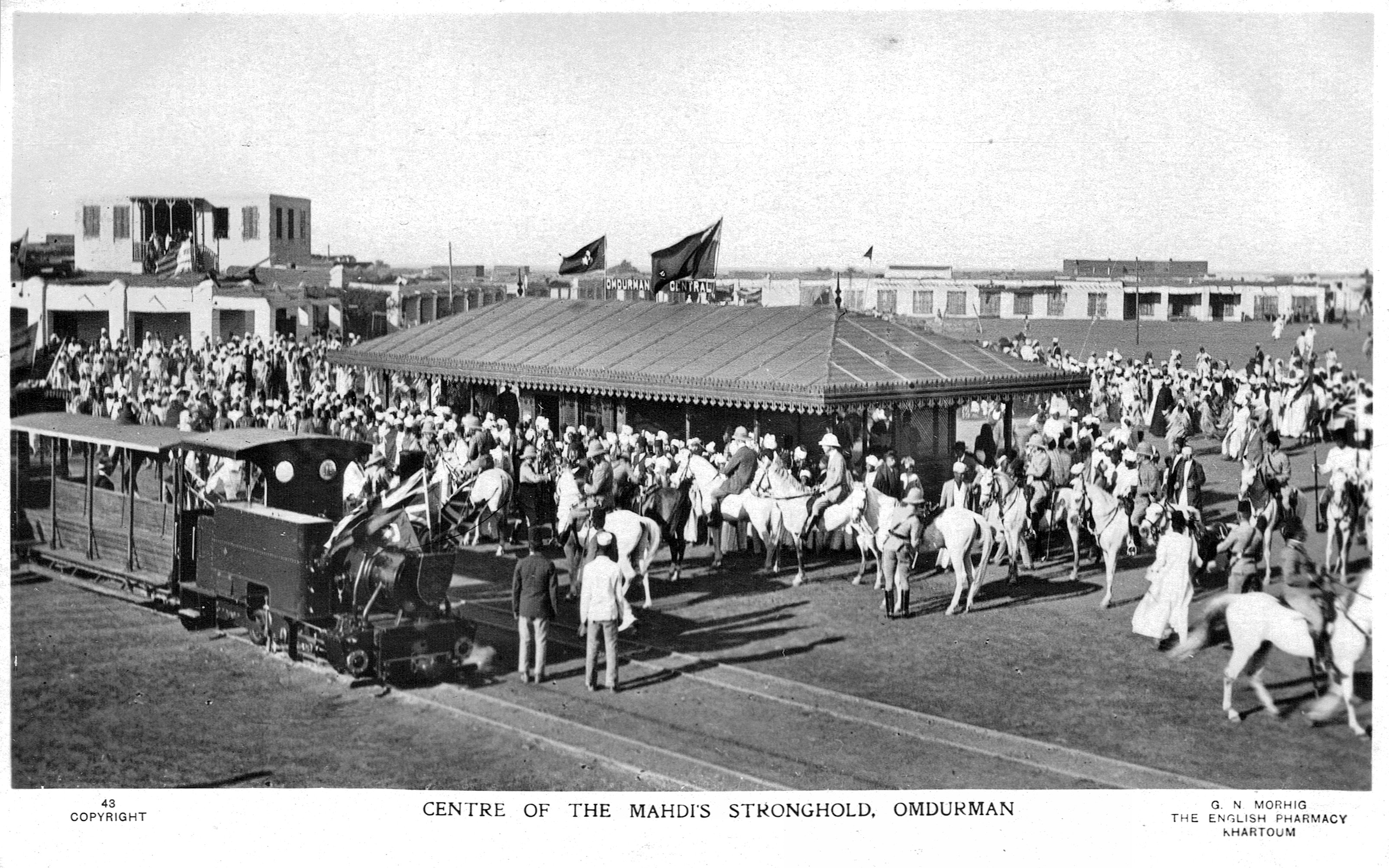 Orenstein & Koppel 0-4-2 steam locomotive of Khartoum Light Railway (G. N. Morhig, The English Pharmacy, Khartoum)